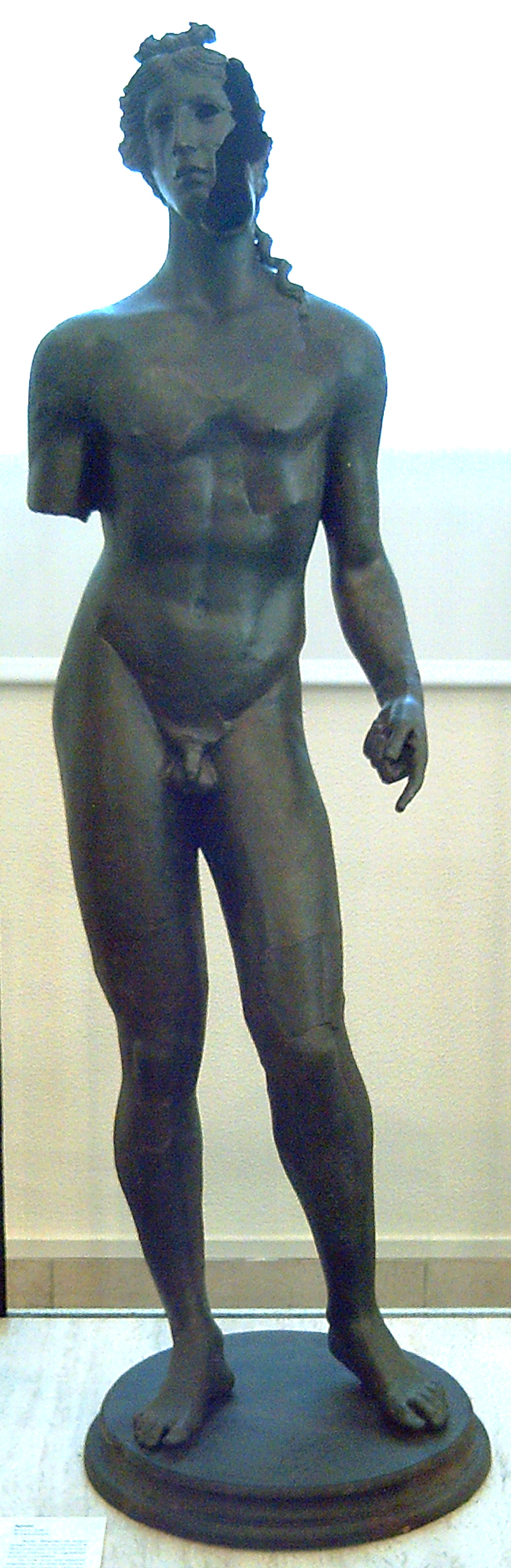 Roman statue of Apollo.